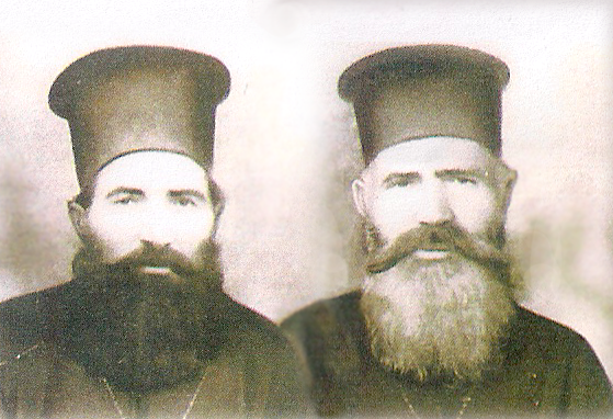 Stefan Skenderov (Hellenized to Stefanos Skenderis after 1913), from Popolzani, Lerin Region (Today Papagiannis, Florina). Murdered by the Greek band of Georgios Tsontos - Vardas